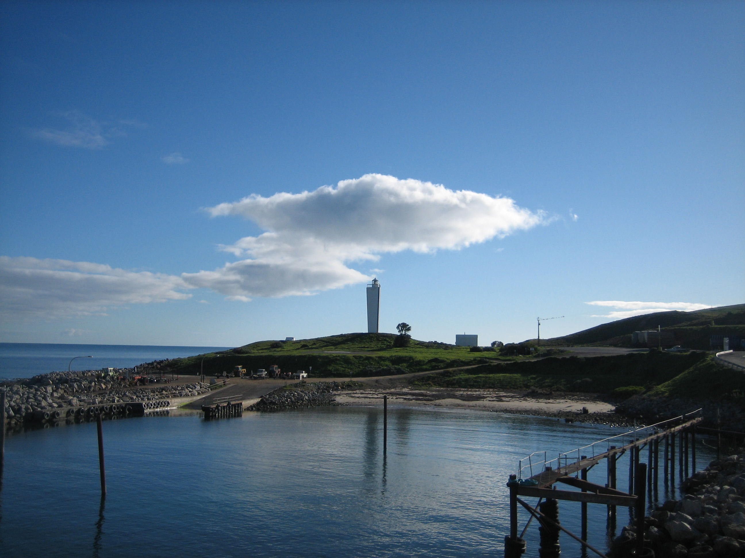 Sealink Port, Cape Jervis